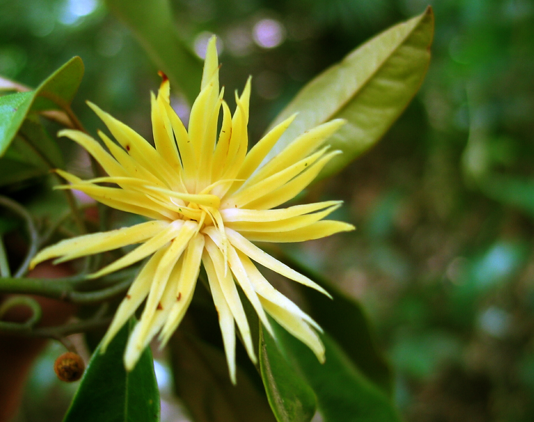 Galbulimima baccata (Himantandraceae) is considered to belong to one of the world's most primitive flowering plant families. It is a tall tree and grows in well developed rainforest in north-east Queensland and south-east Queensland. Although called many names, it is commonly referred to as either “Magnolia" or “Pigeonberry Ash".